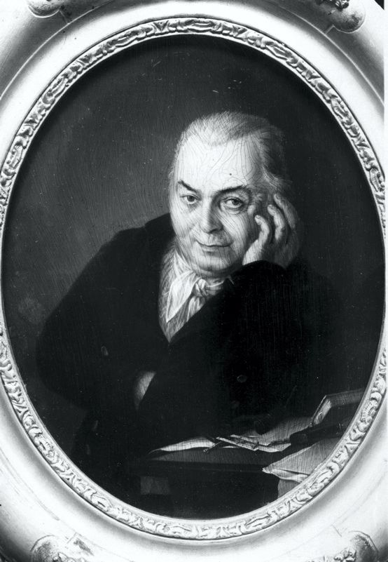 Photographic reproduction of a painting with a portrait of the Italian-Dutch architect Jan Giudici